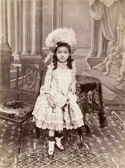 Valaya Alongkorn, Princess of Bejraburi, daughter of King Chulalongkorn in childhood.